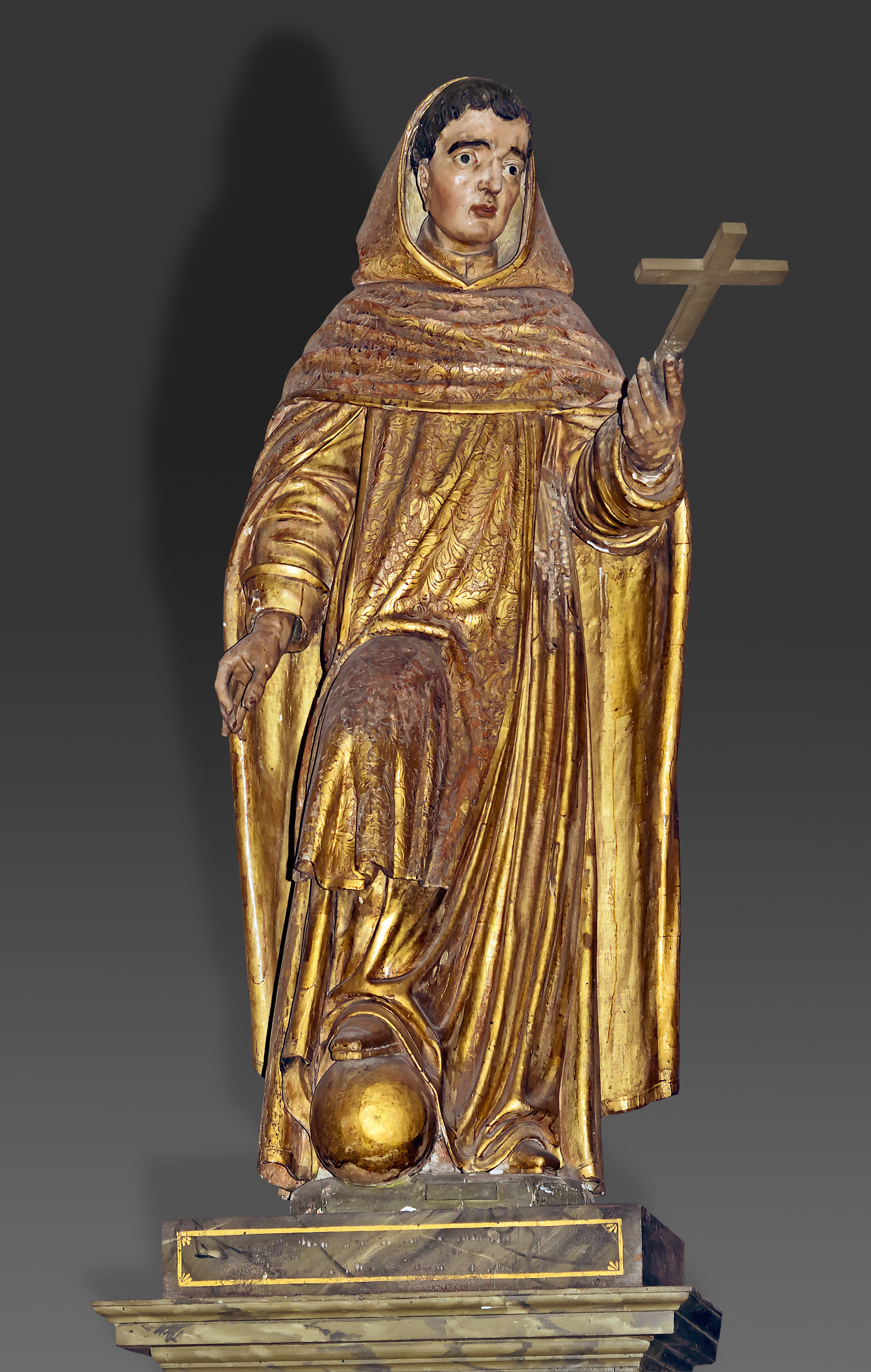 Church Saint-Exupère from Toulouse. The statue of St. Louis Bertrand, by Thibaud Maistrier. First half 17th century. Materials: painted wood